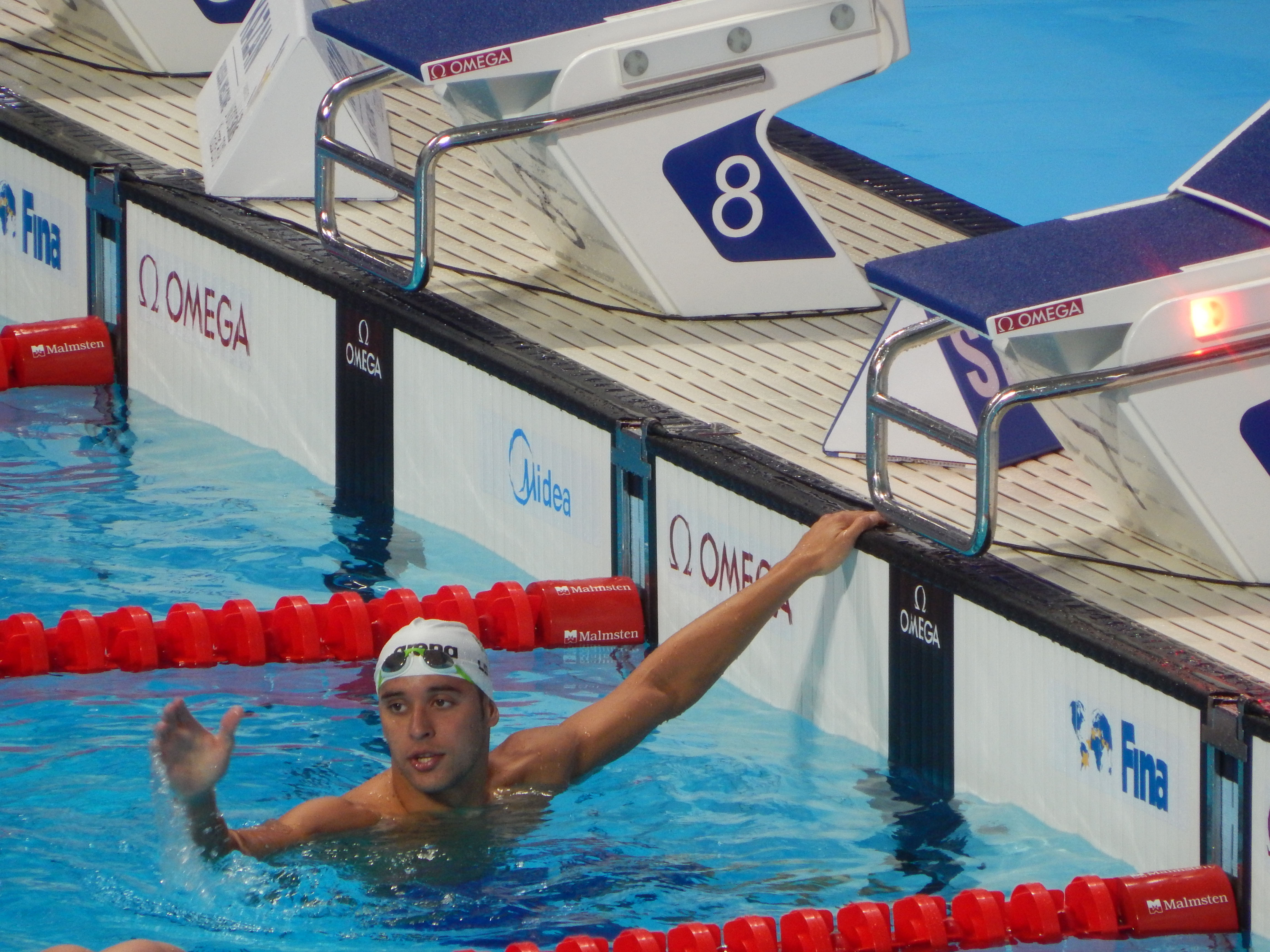 Chad le Clos after finish in 200m freestyle semi in Kazan